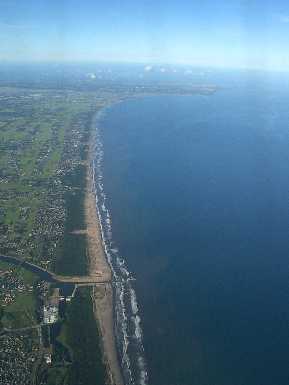 Kujyūkuri-Beach taken from UNITED's airplane from Narita to San Francisco, flying over Sanmu city ,which is located on the east coast of the Bōsō Peninsula in Chiba prefecture, Japan. We can see Kuriyama river and Kuriyamagawa port.